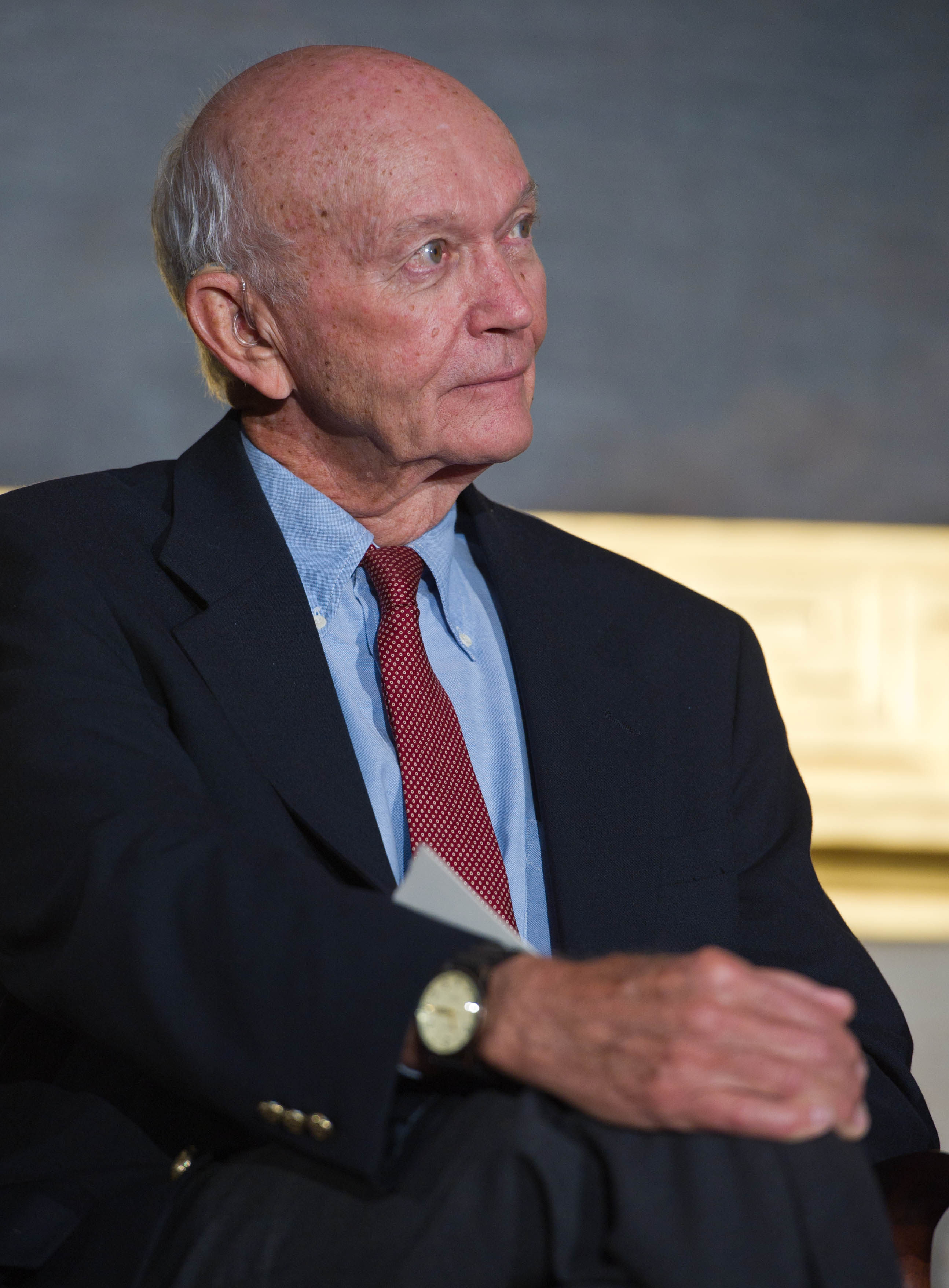 Apollo 11 command module pilot Michael Collins listens to remarks during a Congressional Gold Medal ceremony honoring astronauts Neil Armstrong, Buzz Aldrin himself and John Glenn in the Rotunda at the U.S. Capitol, Wednesday, Nov. 16, 2011, in Washington. The Congressional Gold Medal is an award bestowed by Congress and is, along with the Presidential Medal of Freedom the highest civilian award in the United States. The decoration is awarded to an individual who performs an outstanding deed or act of service to the security, prosperity, and national interest of the United States.